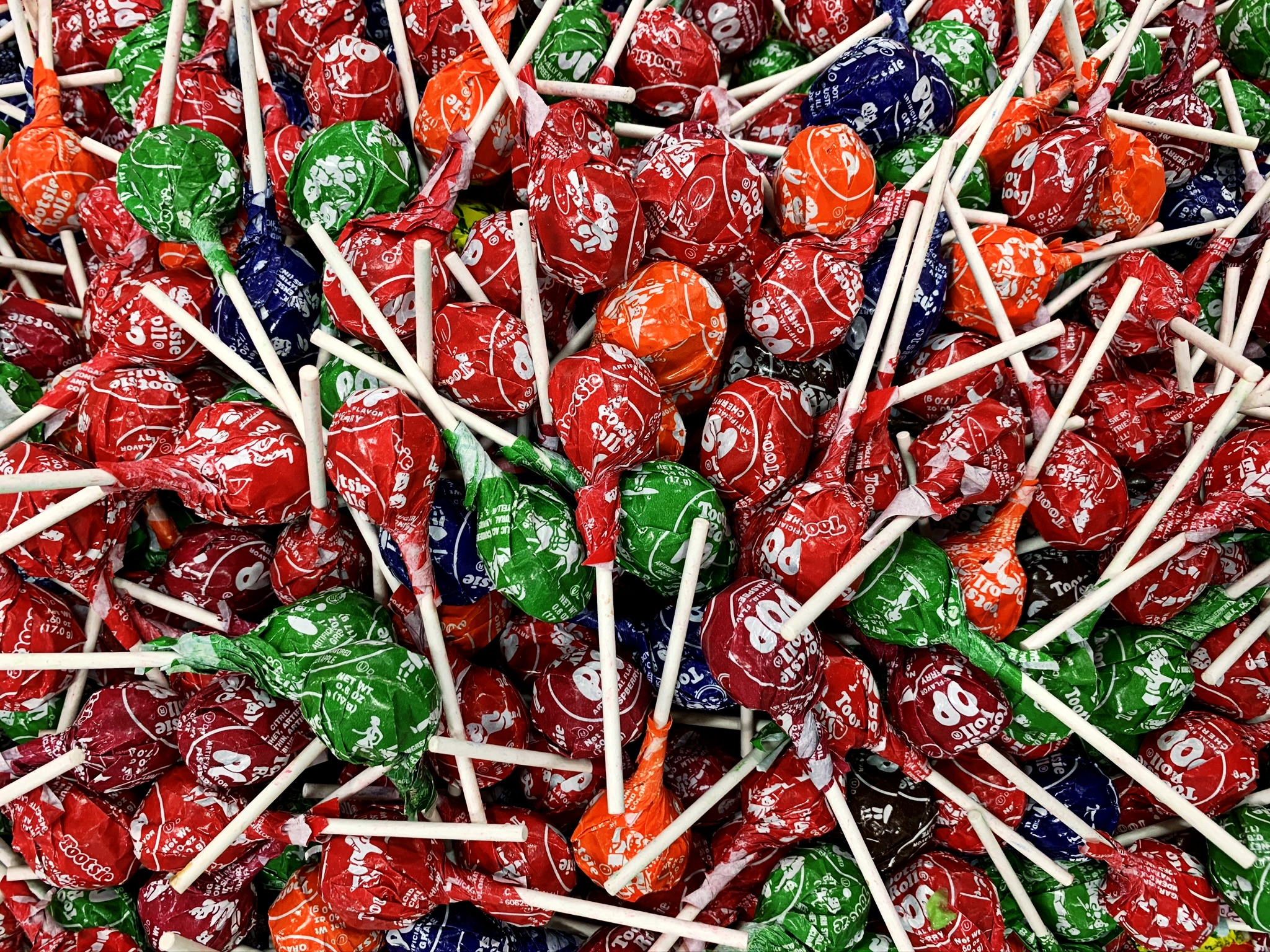 Tootise Pops at the 2019 State Fair of Virginia.